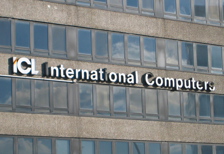 Vacant former International Computers Limited offices at Amsinckstraße 45, Hamburg, Germany